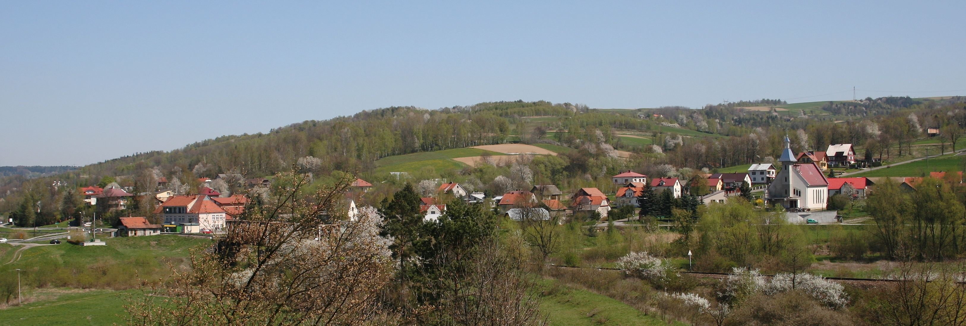 Żarnowa, Poland.